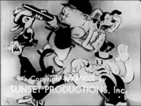 klknkn